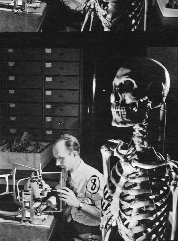 1950. T. Dale (Thomas Dale) Stewart (1901-1997), physical anthropologist, Department of Anthropology, United States National Museum (now the National Museum of Natural History), in his laboratory measures a skull. A human skeleton, from the waist up is in the foreground on the right. Photograph was taken on October 3, 1950 by the Federal Bureau of Investigation. Stewart, who pioneered in the field of forensic anthropology, often examined skeletons for the FBI.